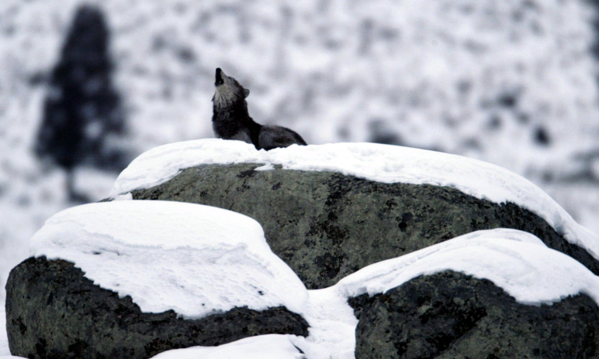 Wolf howling on glacial erratic at Little America Flats.